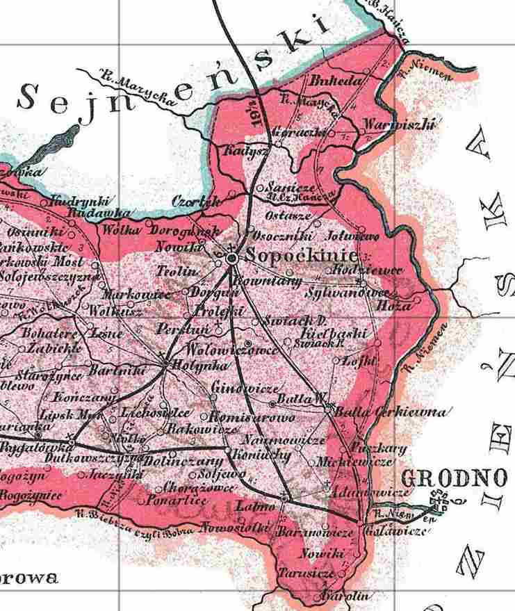 Suwałki Region Sapotskin historical map XIX century